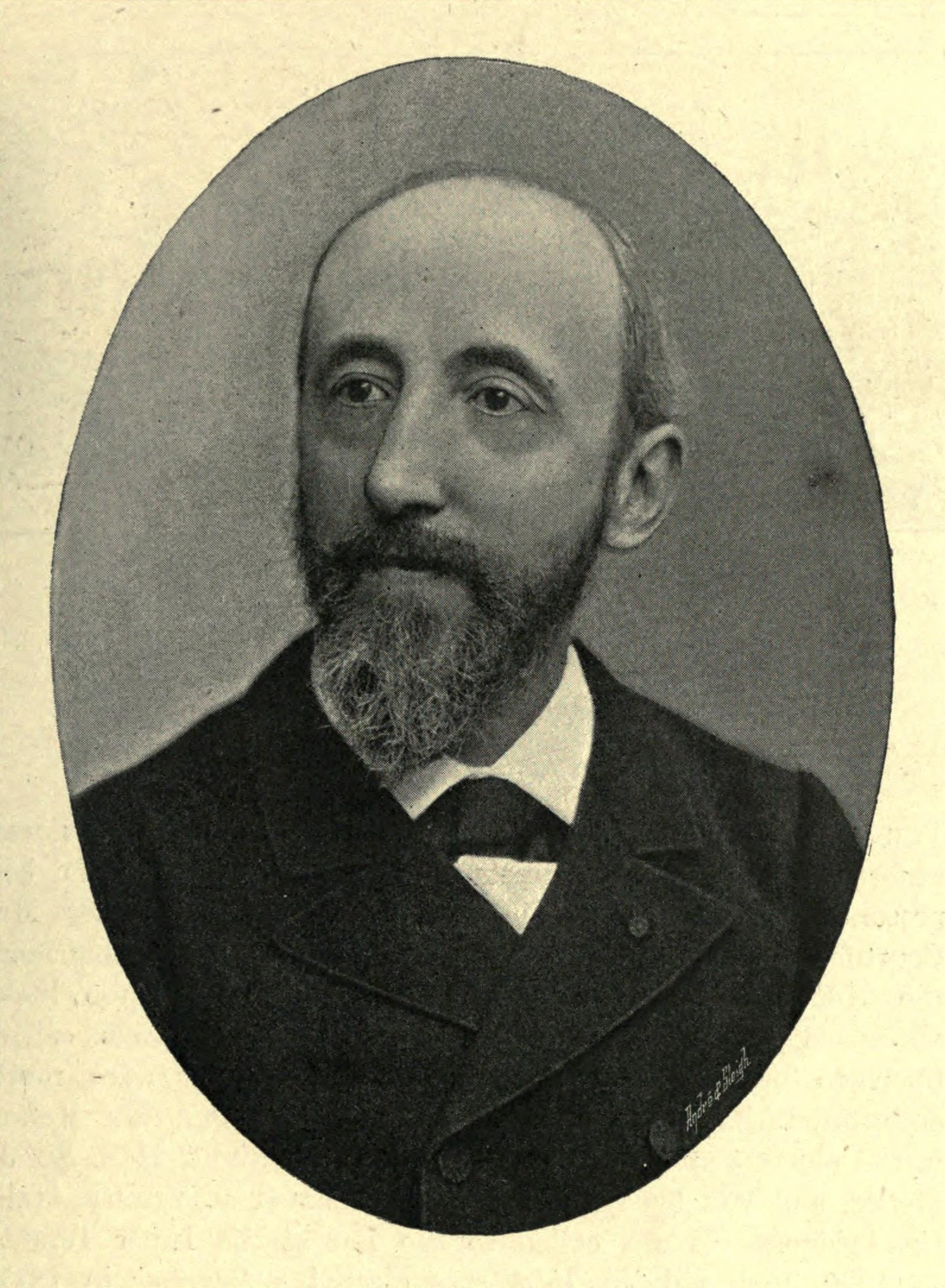 Portrait of Jules Arsène Arnaud Claretie